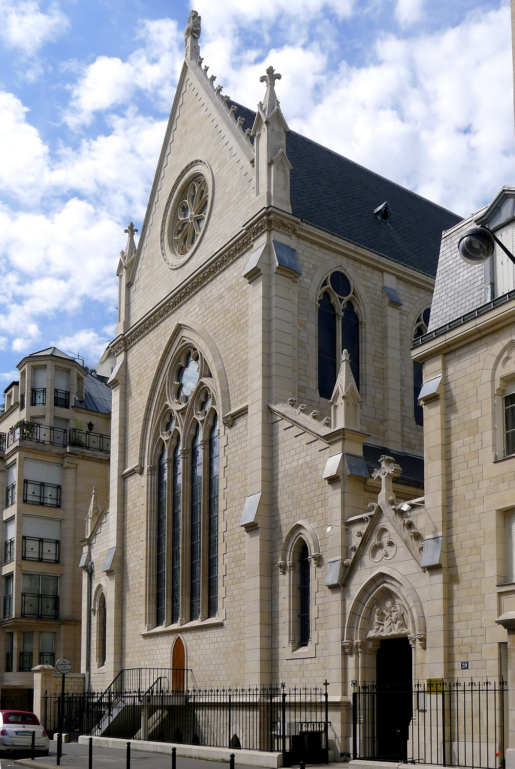 Notre-Dame-du-Saint-Sacrement church - Paris